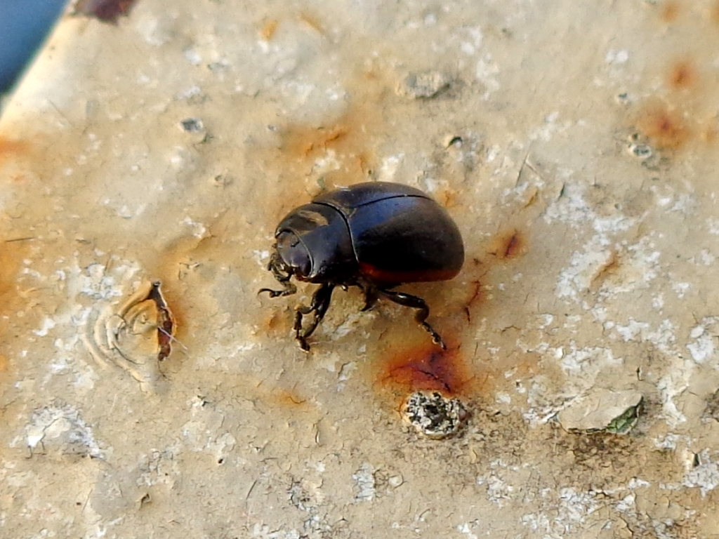 Chrysolina analis. Found in Riga town, Latvia